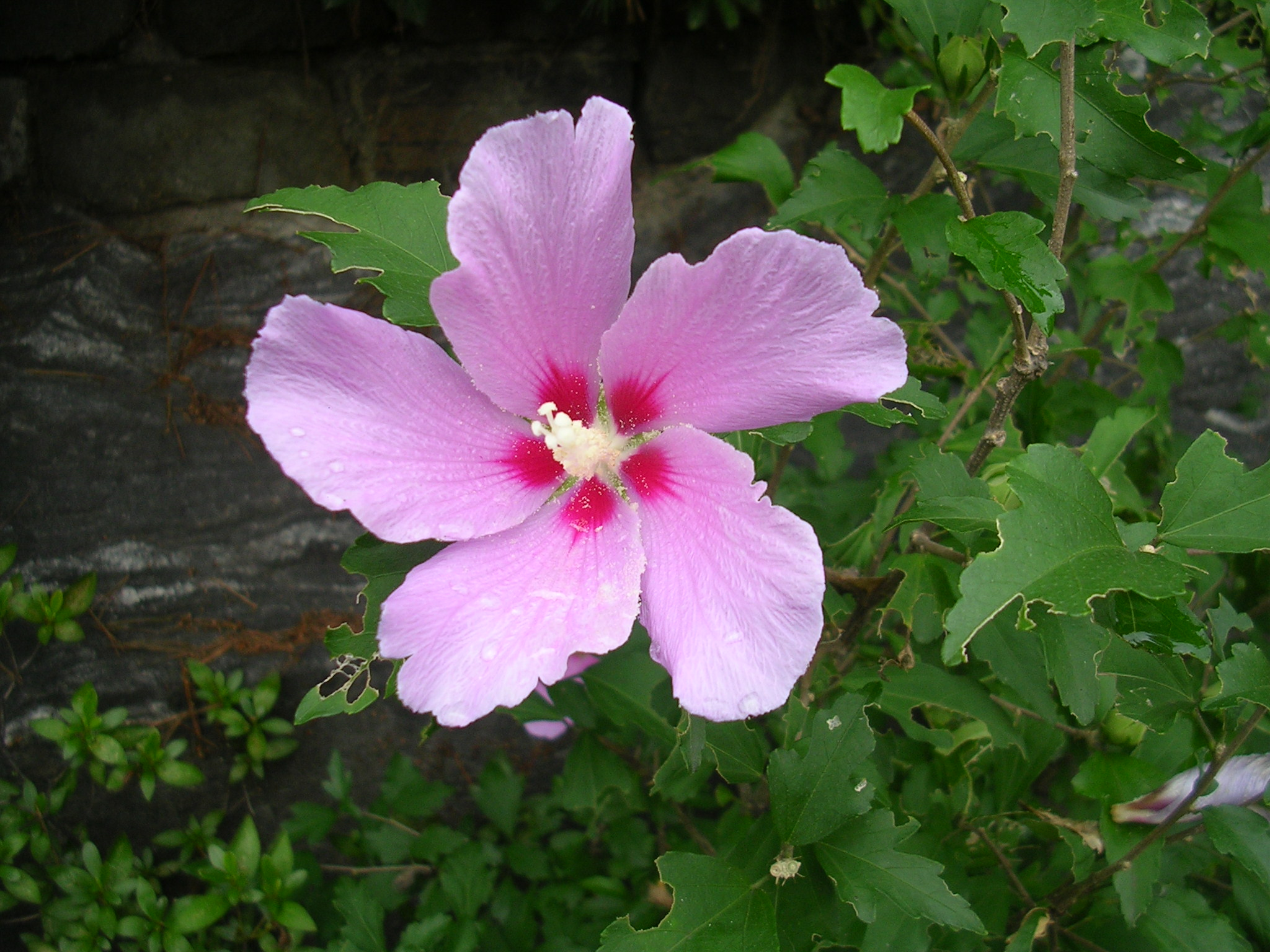 A Hibiscus syriacus on a street in Seoul, South Korea